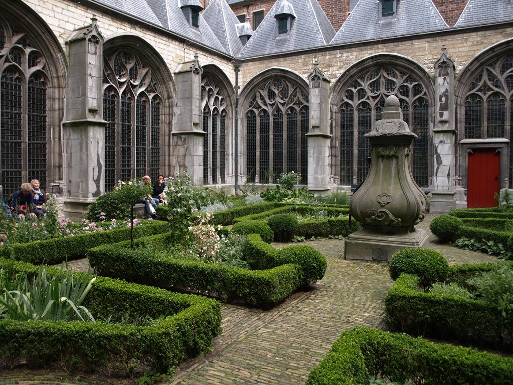 Middelburg (Netherlands),abbey, photo 2008